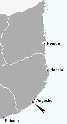 Location of Angoche Island